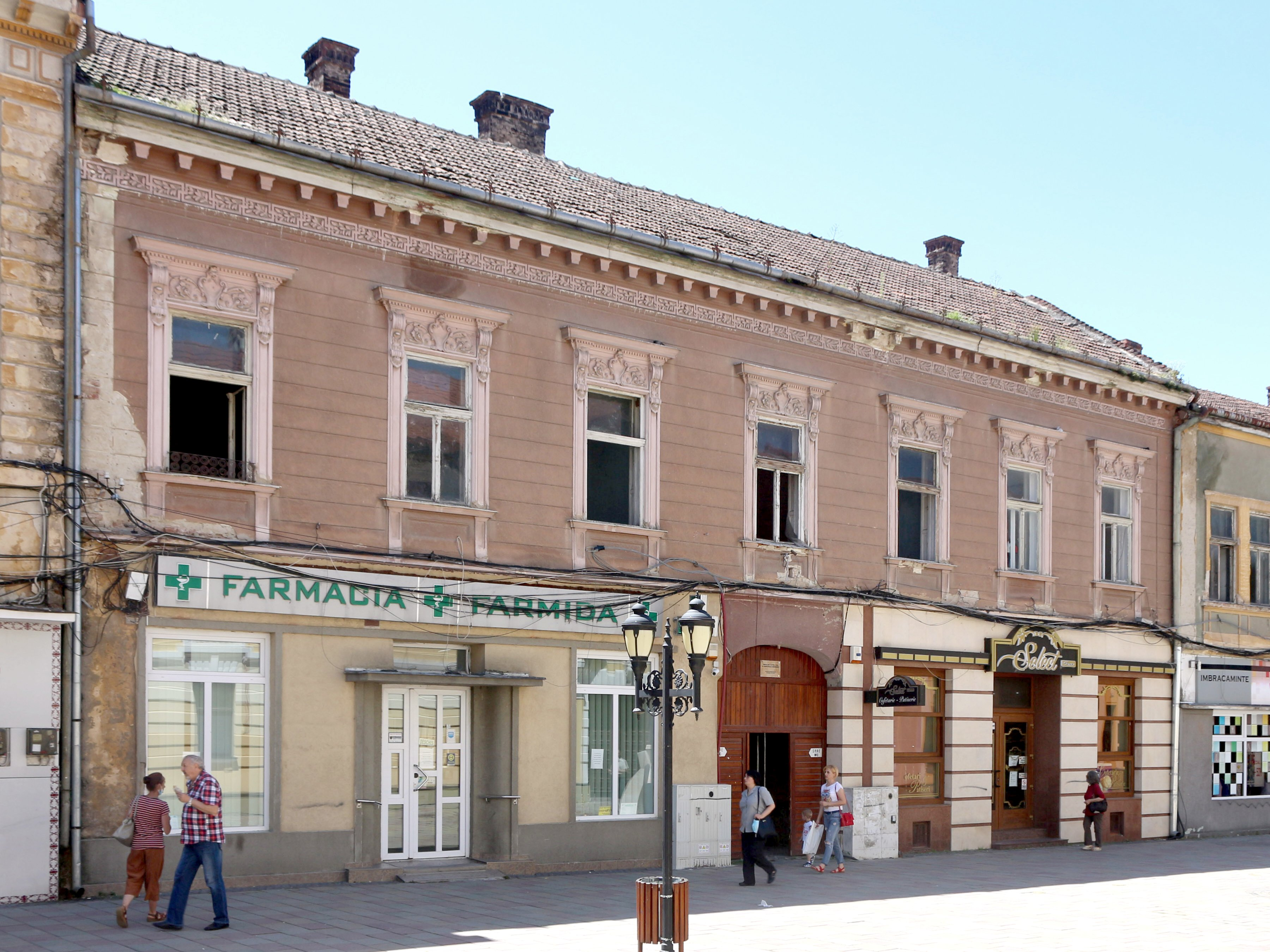 The former first Romanian pharmacy in Banat, photo workshop, shop, today housing, with commercial ground floor, Eiscopiei St., no. 12, Catransebeș, Romania, built in the middle of 18th century.